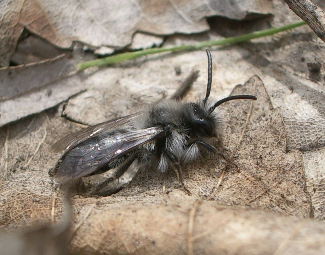 Description: Andrena cineraria (male).